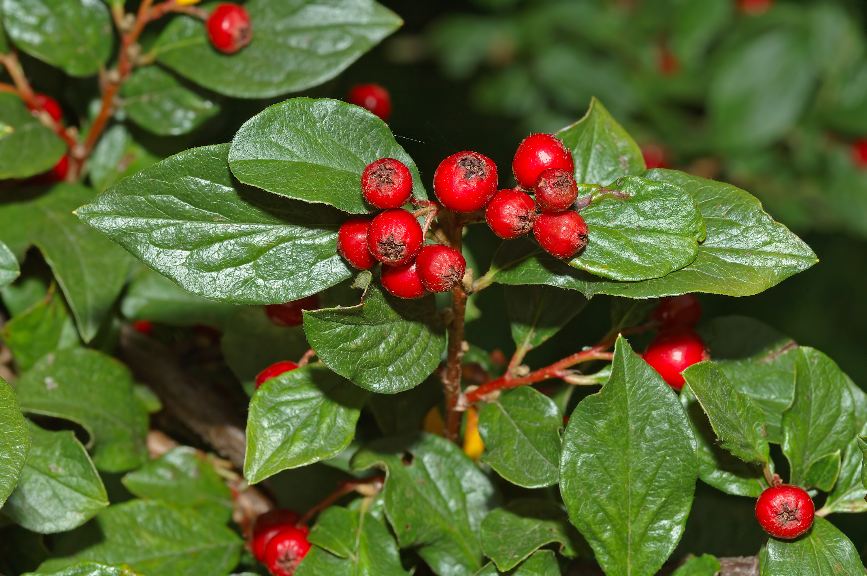 This image shows a plant of the species Cotoneaster acuminatus.